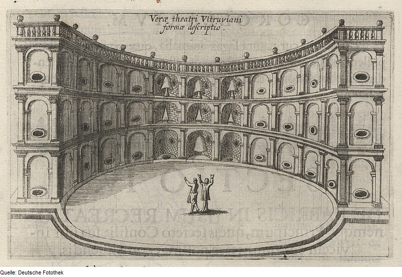 Original image description from the Deutsche FotothekAkustik & Schall & Theater